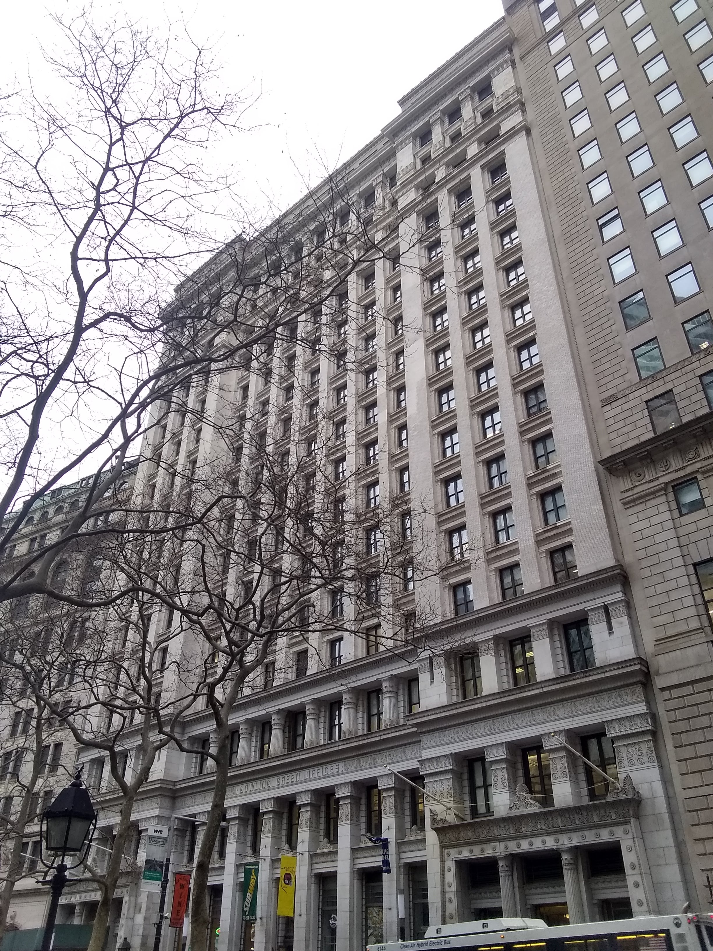 Buildings around Bowling Green, Manhattan, New York